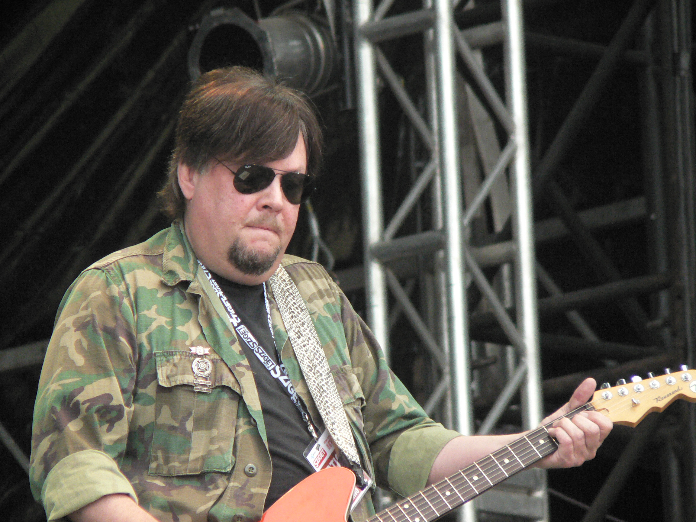 Live on the 15th of August, 2006. Sziget Fesztivál, Budapest, Hungary. Iggy and the Stooges. ©© Derzsi Elekes Andor, Budapest, 2014, Published in the Metapolisz DVD line. You are authorised to use this photo under Creative Commons – even for commercial, for profit purposes. The photo must be attributed to Derzsi Elekes Andor. All of the photos and vids in the Metapolisz DVD line are under Creative Commons and can be used even for commercial – for profit – purposes. Recommended Citation Derzsi Elekes Andor: Metapolisz DVD line